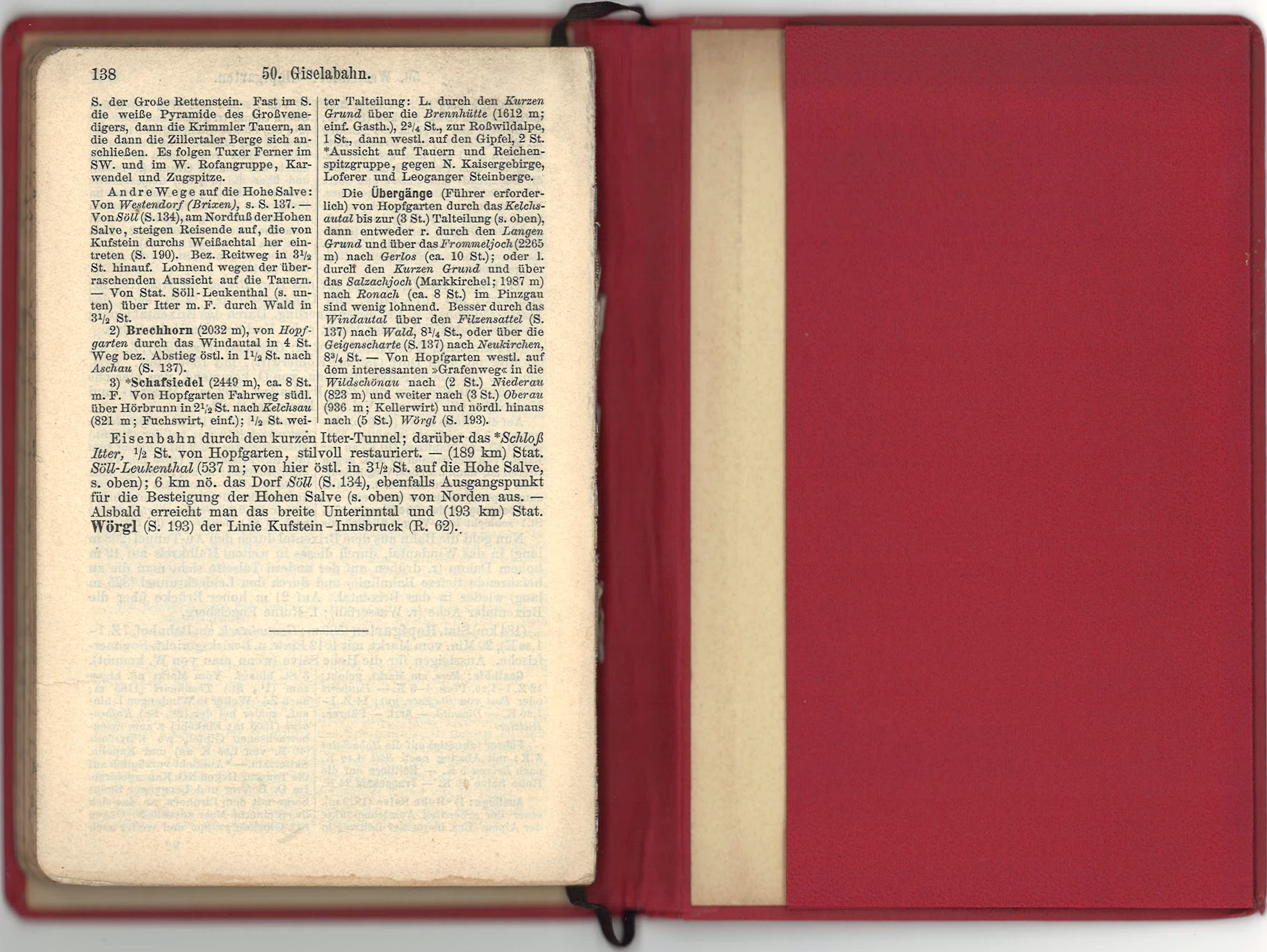 Neutral cover "Reisehandbuch" for taking away parts of any travel guide, with part of Meyers Reisebücher, Alpen, 9th ed., 1908